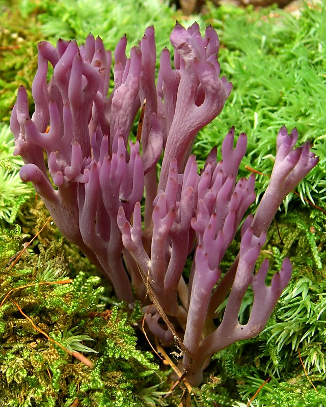 Scientific Name: Clavulina amethystina (Fr.) Donk Common Name: Violet Branched Coral Fungus Certainty: positive (notes) Location: Central Appalachians; George Washington NF; Shenandoah Mt Date: 20060730